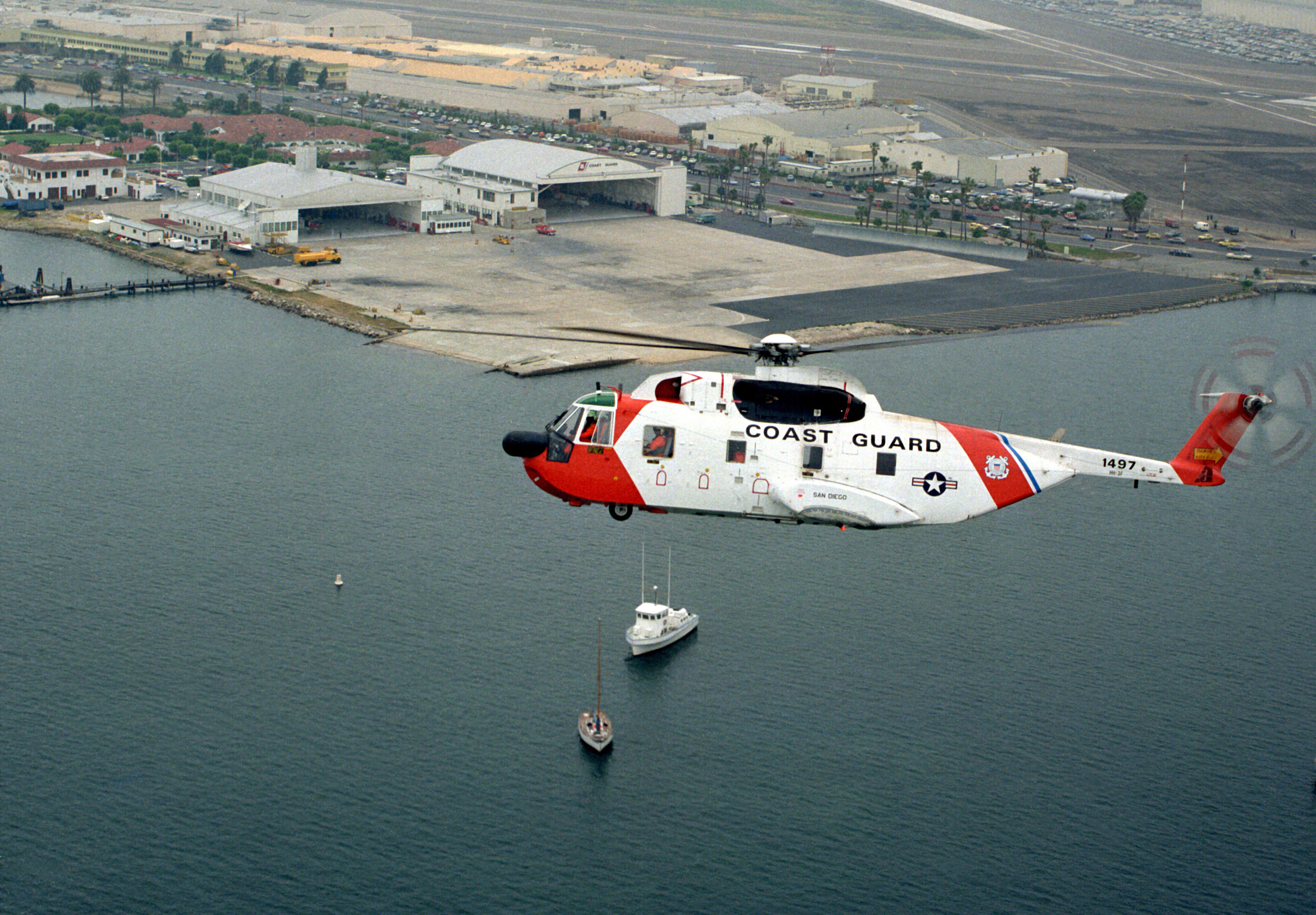 A U.S. Coast Guard Sikorsky HH-3F Pelican helicopter (s/n 1497) in flight over Coast Guard Air Station San Diego, California (USA), in 1981. Note that the air station is physically separated from the rest of the airfield, such that USCG fixed-wing aircraft must cross a busy, 6-lane city street to reach the runway; street light activation opens the locked gates to the airfield and the air station, and also stops traffic while aircraft are traversing the street.